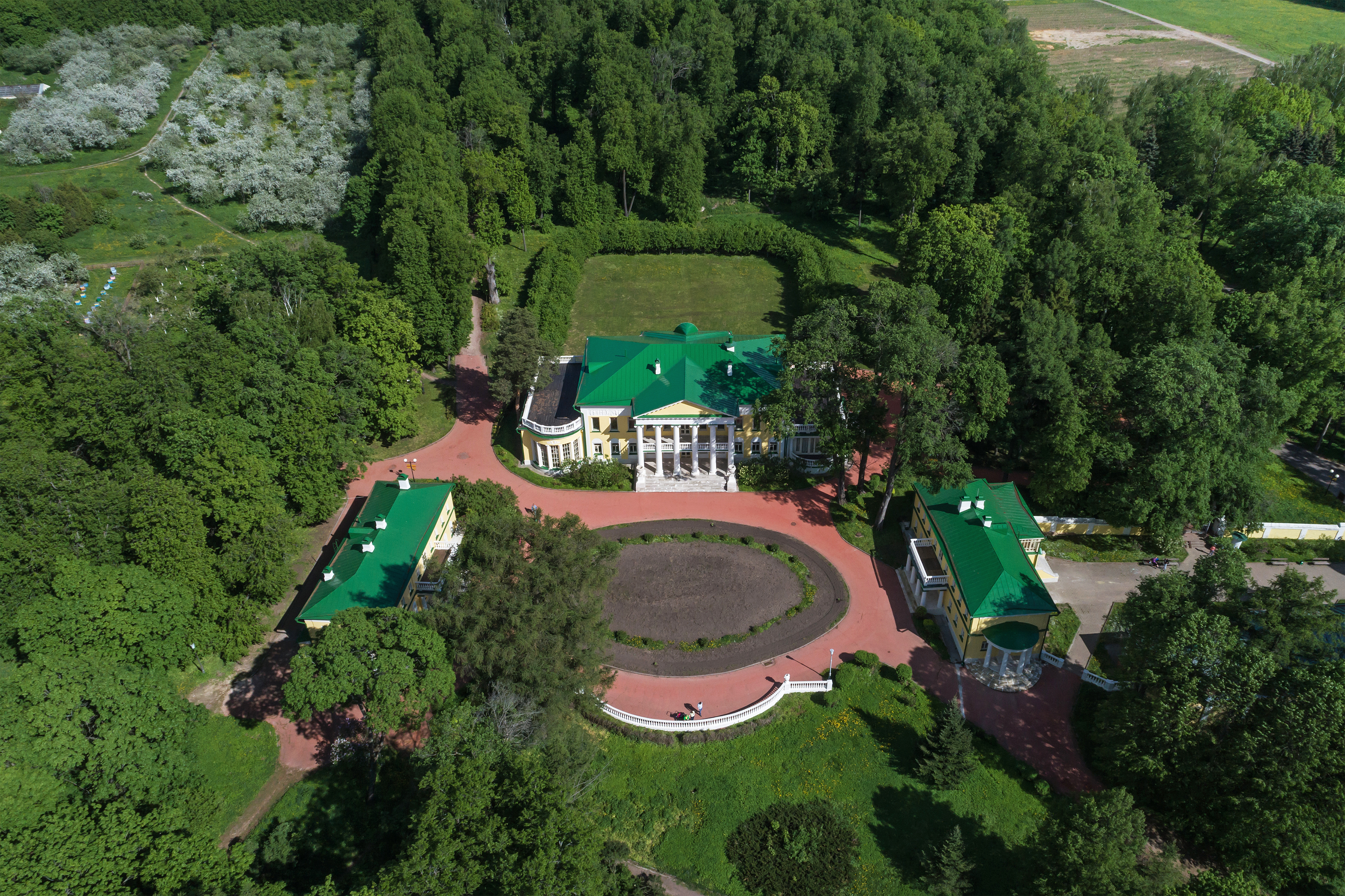 Former Gorki Estate (today Lenin Museum) in Gorki Leninskiye, near Domodedovo, Moscow Oblast (Russia). Aerial photo.